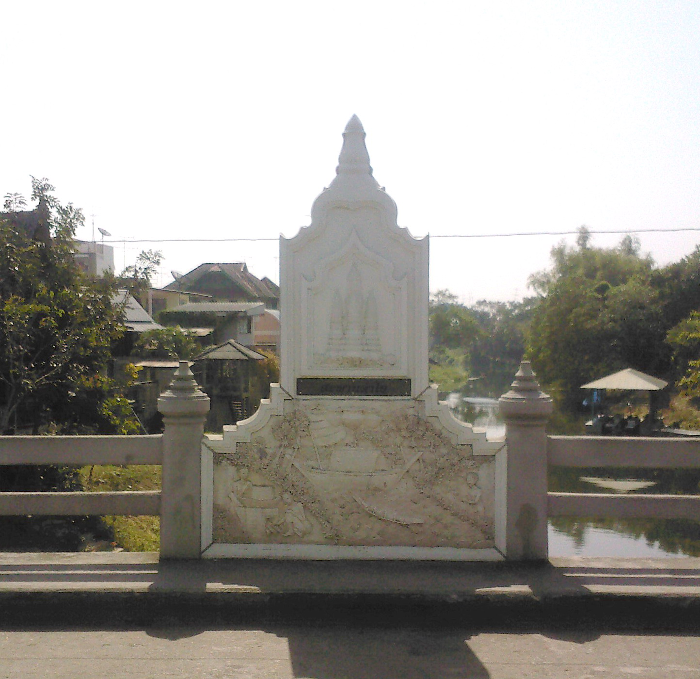 Lum Yai Bridge Sign